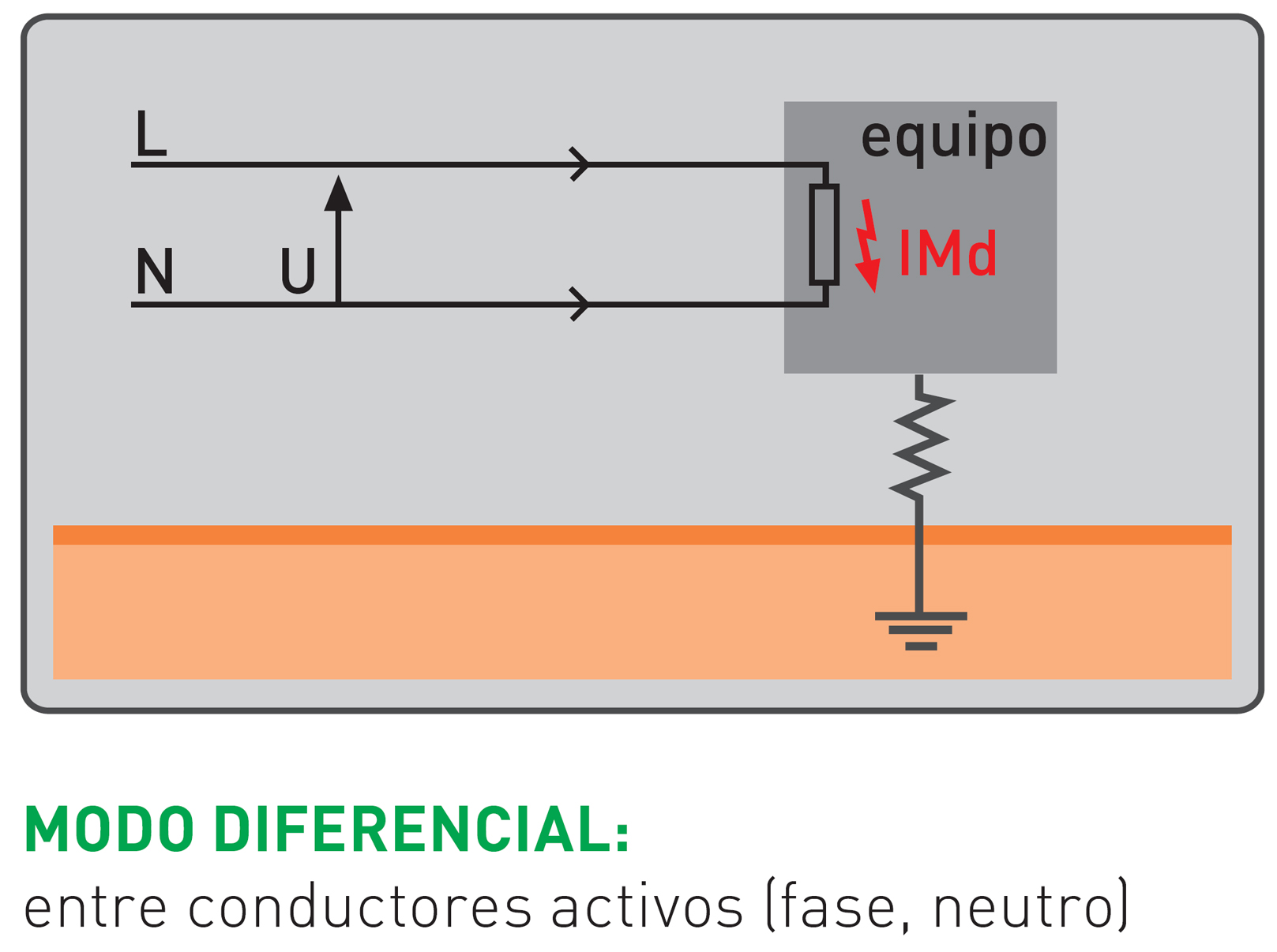 Differential mode